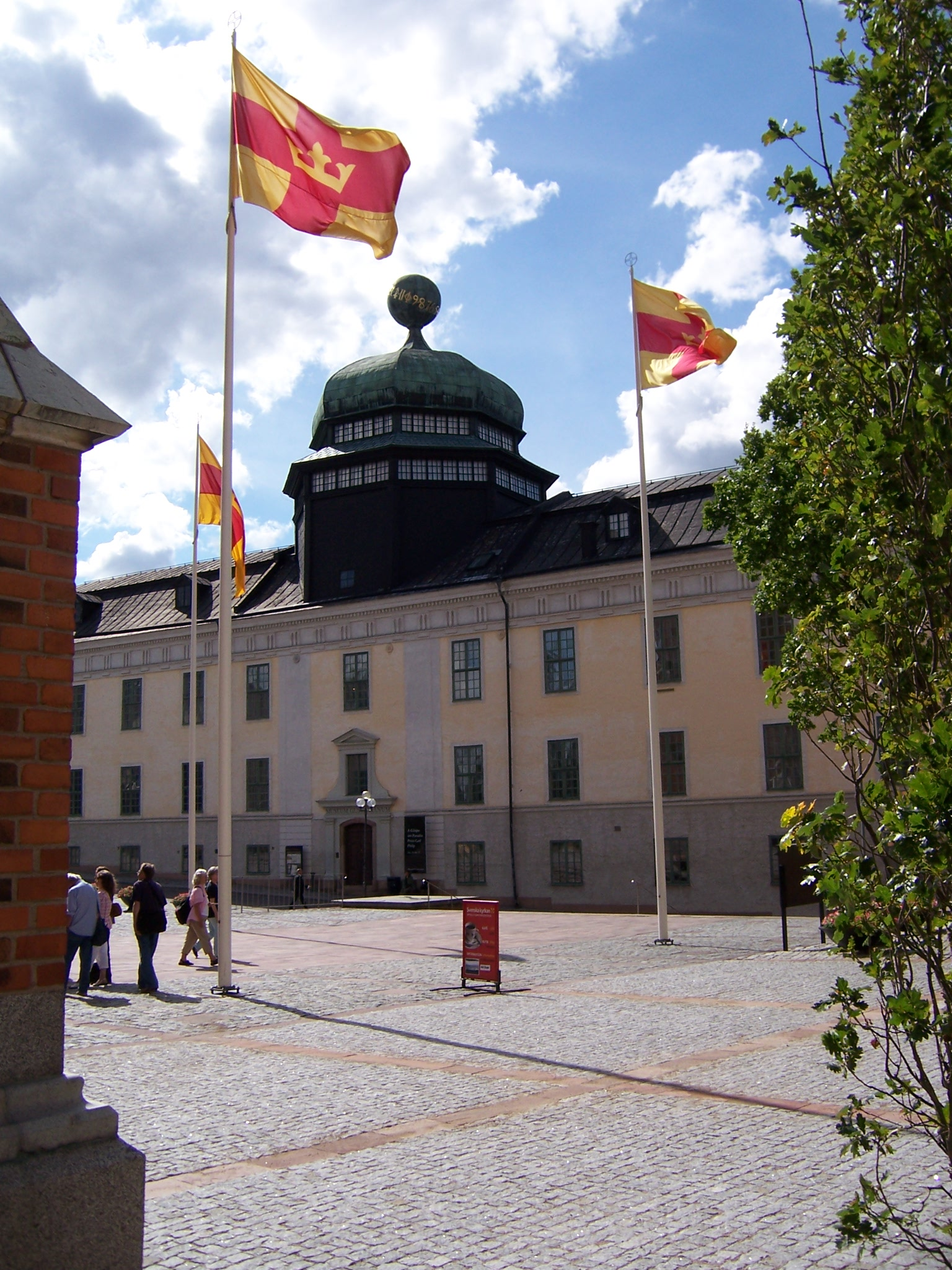 Gustavianum, University of Uppsala (Sweden) own work, all rights released